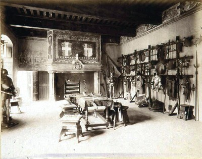 Old picture of one room inside Issogne castle